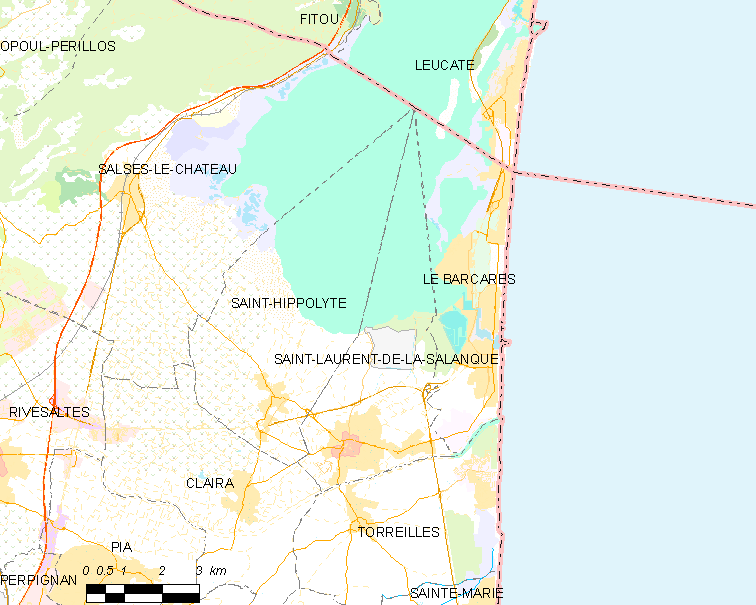 Map of French municipality